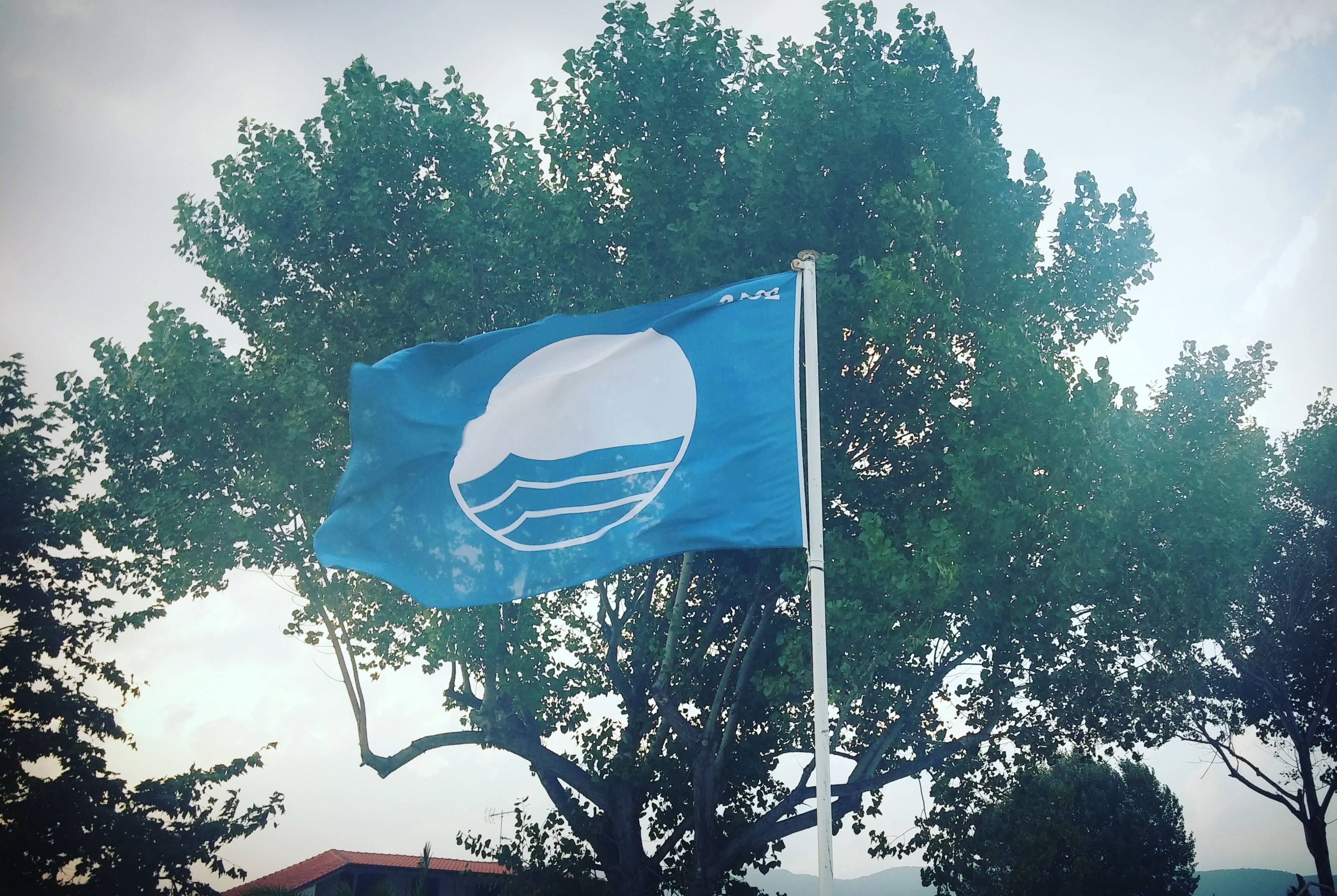 Nea Vrasna blue flag